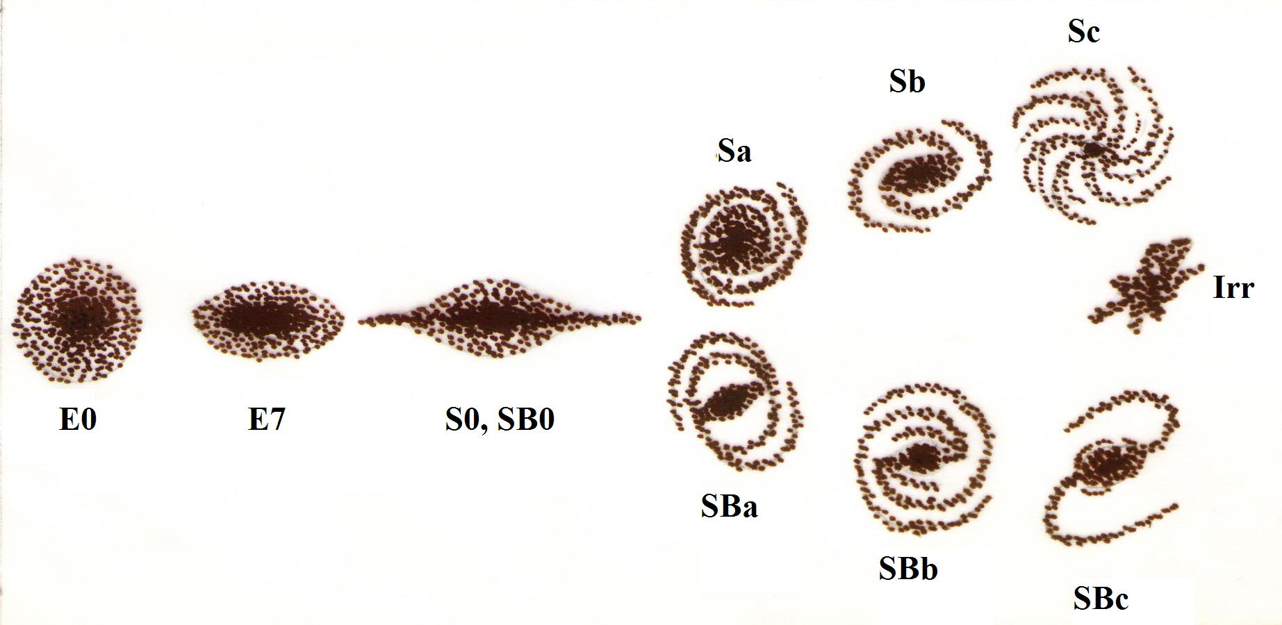 Hubble Sandage Galaxy Classification Scheme